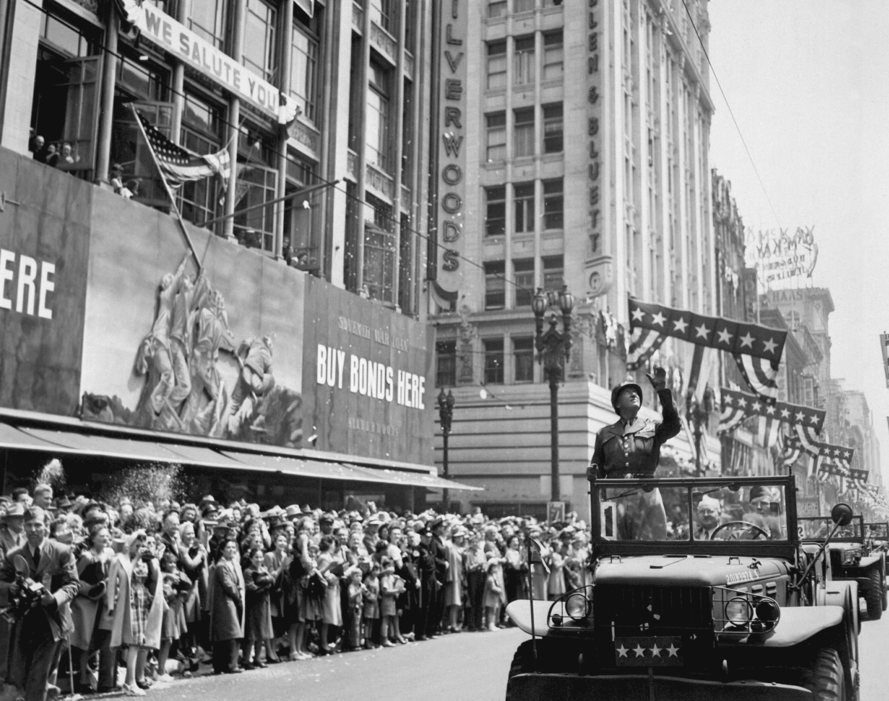 General George S. Patton acknowledging the cheers of the welcoming crowds in Los Angeles, CA, during his visit on June 9, 1945. Acme. (OWI) NARA FILE #: 208-PU-154F-5 WAR & CONFLICT #: 753 Location: LOS ANGELES, CALIFORNIA (CA) UNITED STATES OF AMERICA (USA)